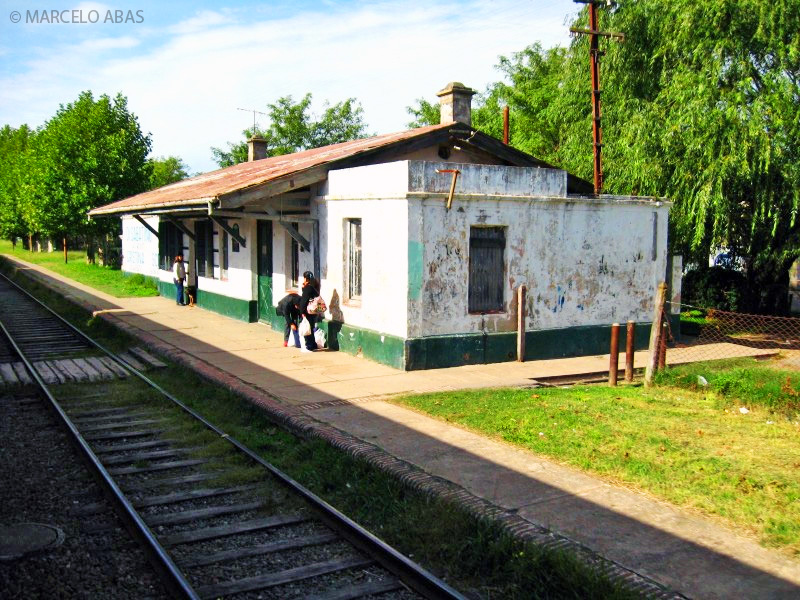 Domselaar Train Station